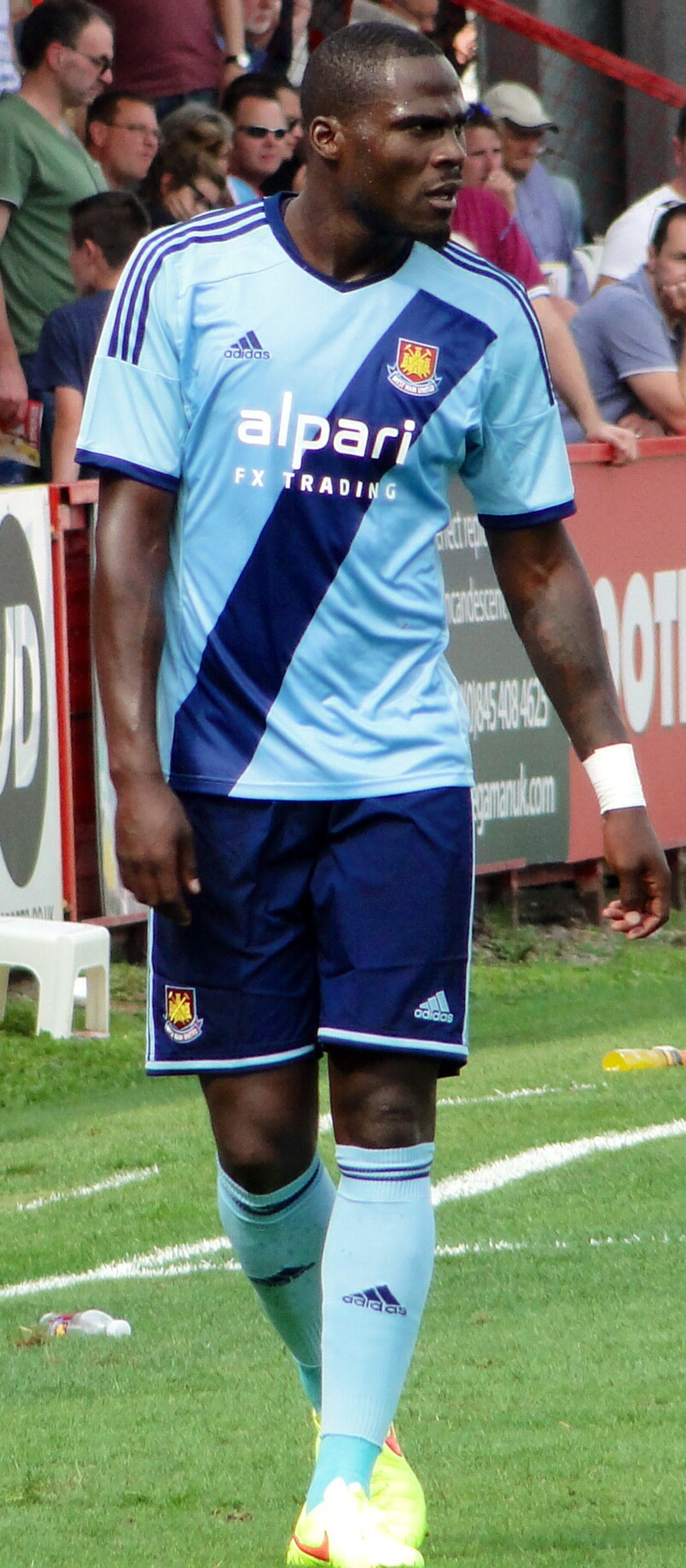 West Ham player Guy Demel at Broadhall Way, Stevenage for their friendly game against Stevenage in July 2014.